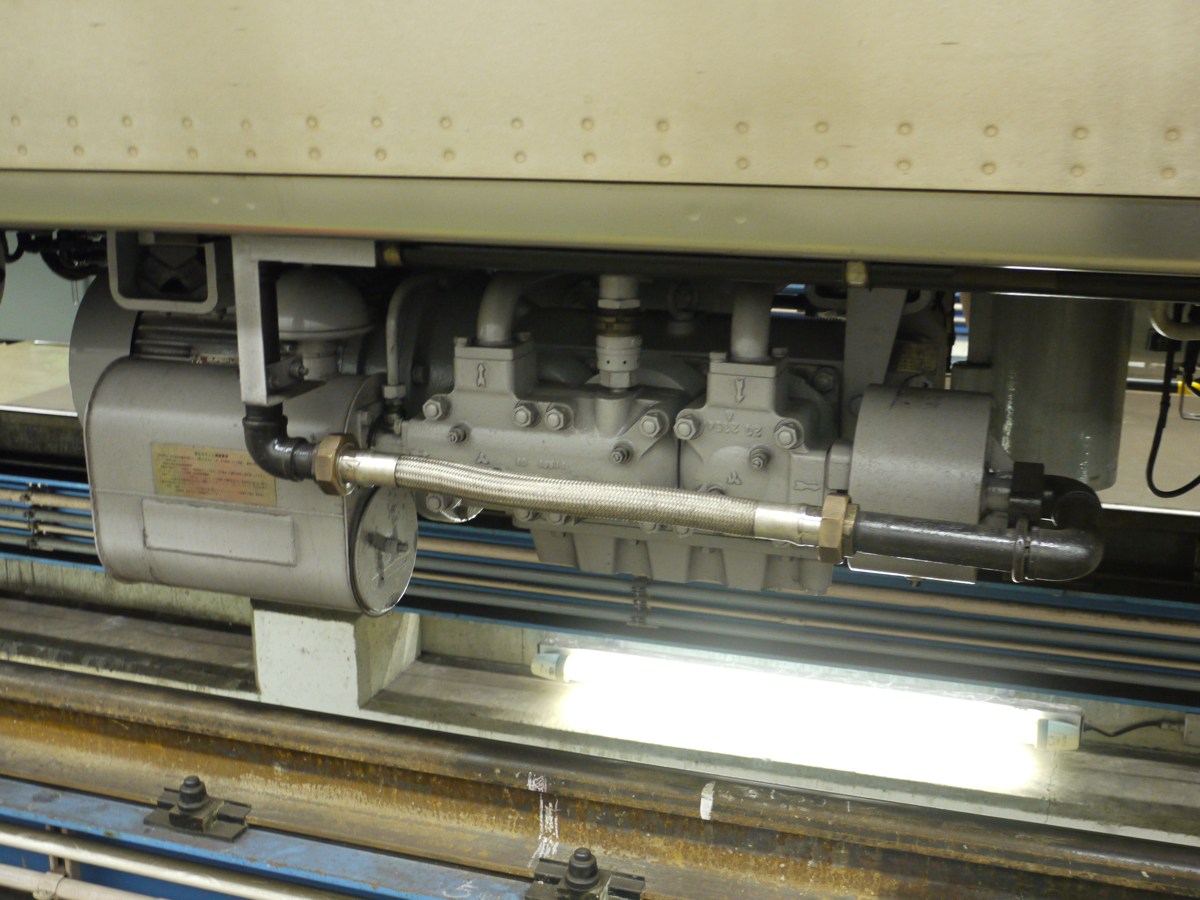 Air compressor on Kyoto subway 50 series